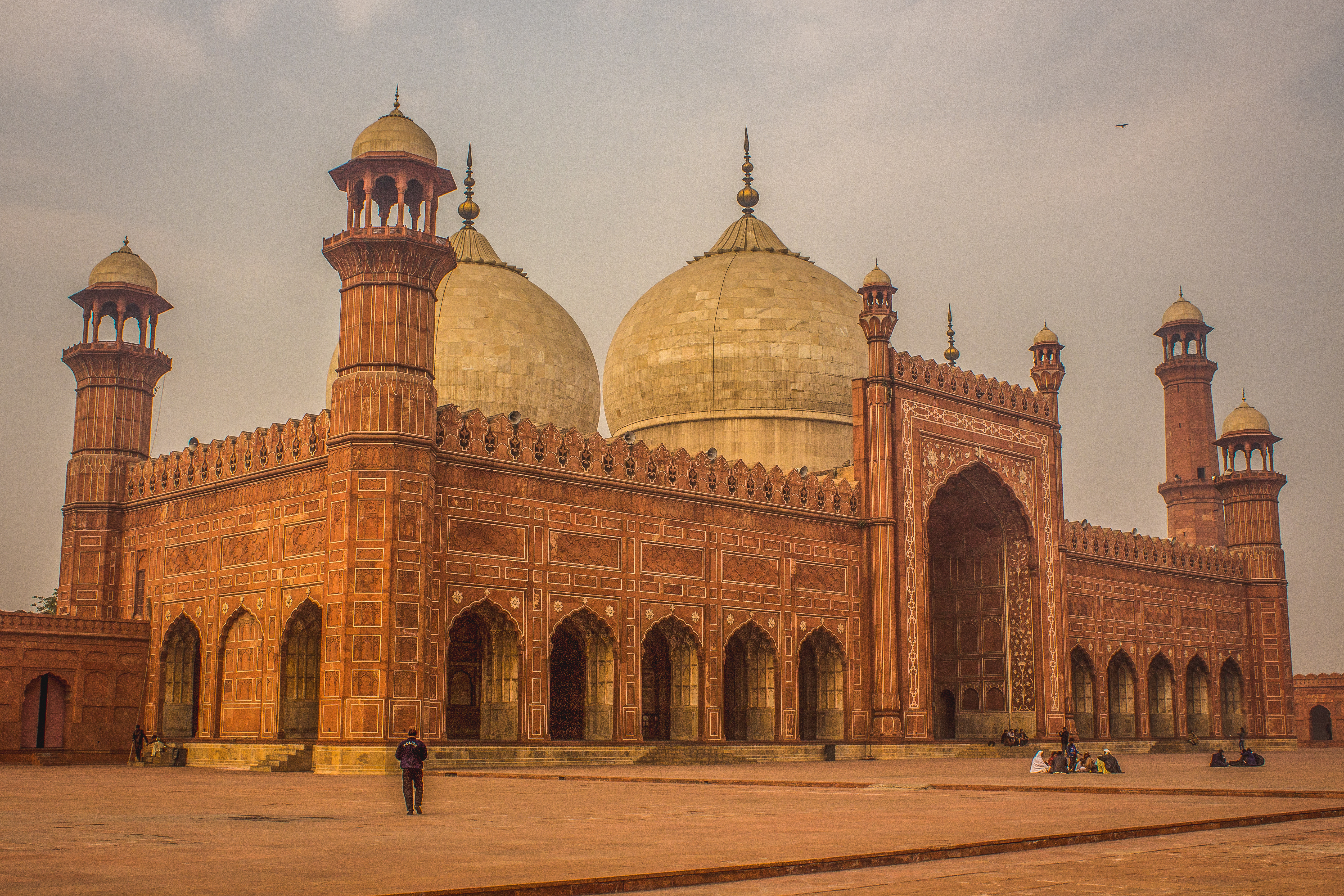 Badshahi Mosque (King’s Mosque) This is a photo of a monument in Pakistan identified as the PB-44